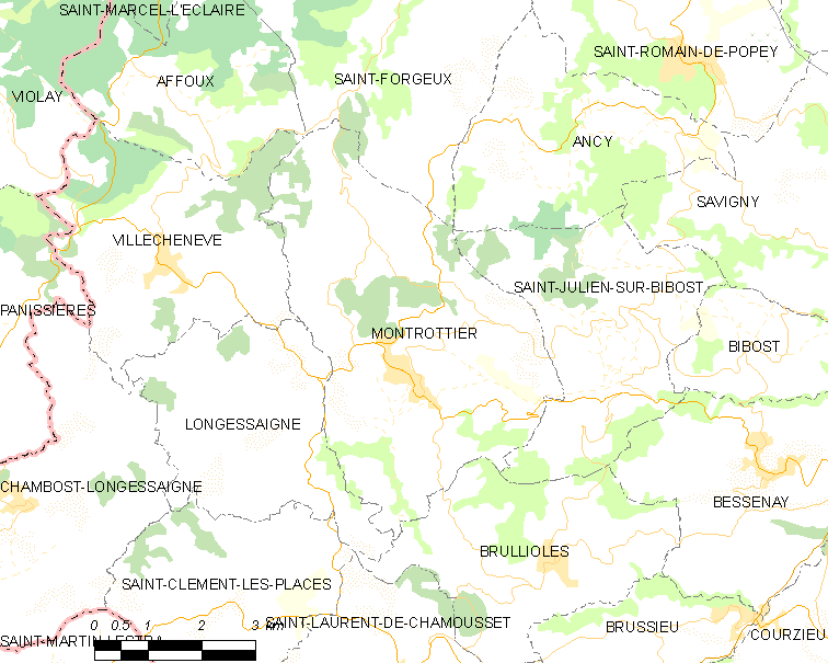 Map of French municipality